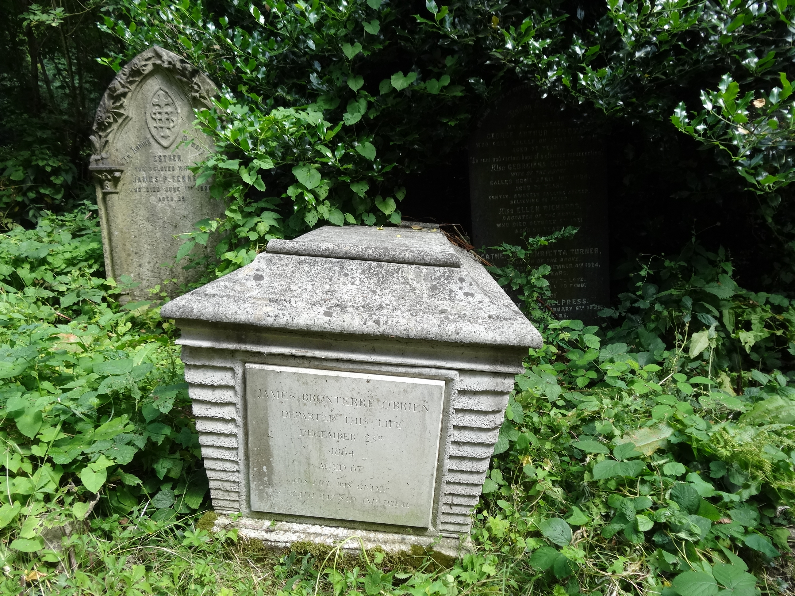 James Bronterre O'Brien's grave in Abney Park Cemetery, near Stoke Newington Church Street